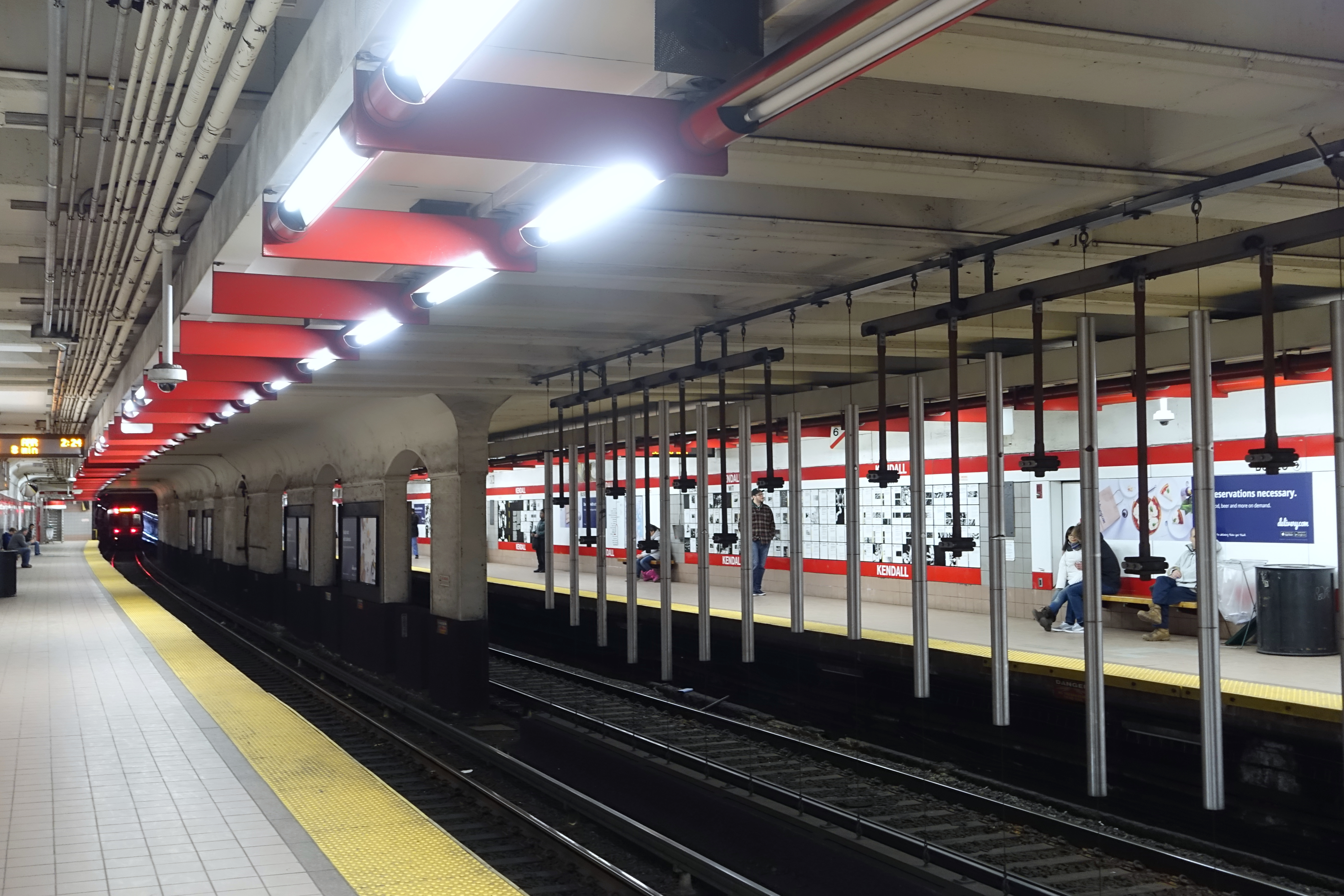 Kendall Square station - Cambridge, Massachusetts, USA.